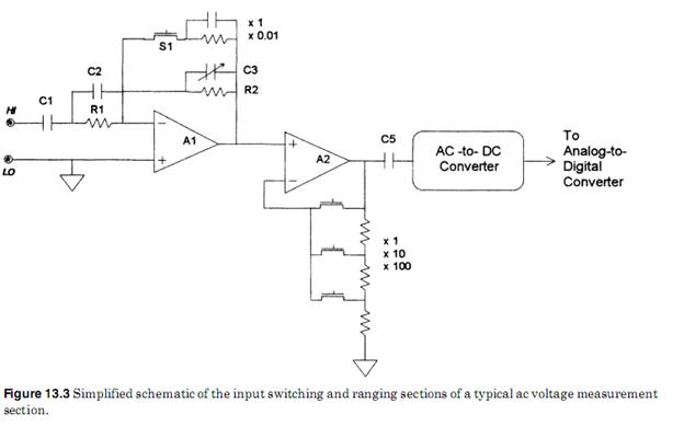 Simplified schematic of the input switching and ranging sections of a typical ac voltage measurement section